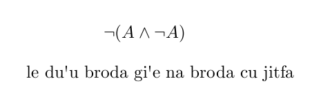 the Principle of non-contradiction